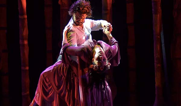 Jamil and Alba dance their lover's dance